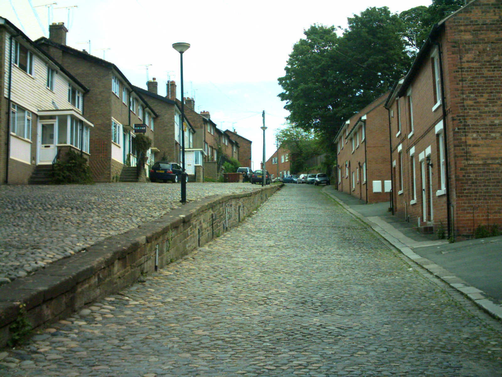 Greenaway Street, Handbridge, Chester.